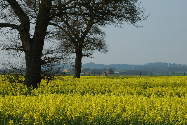 Oilseed Rape next to RAF Shawbury RAF Shawbury control tower is in the middle distance.